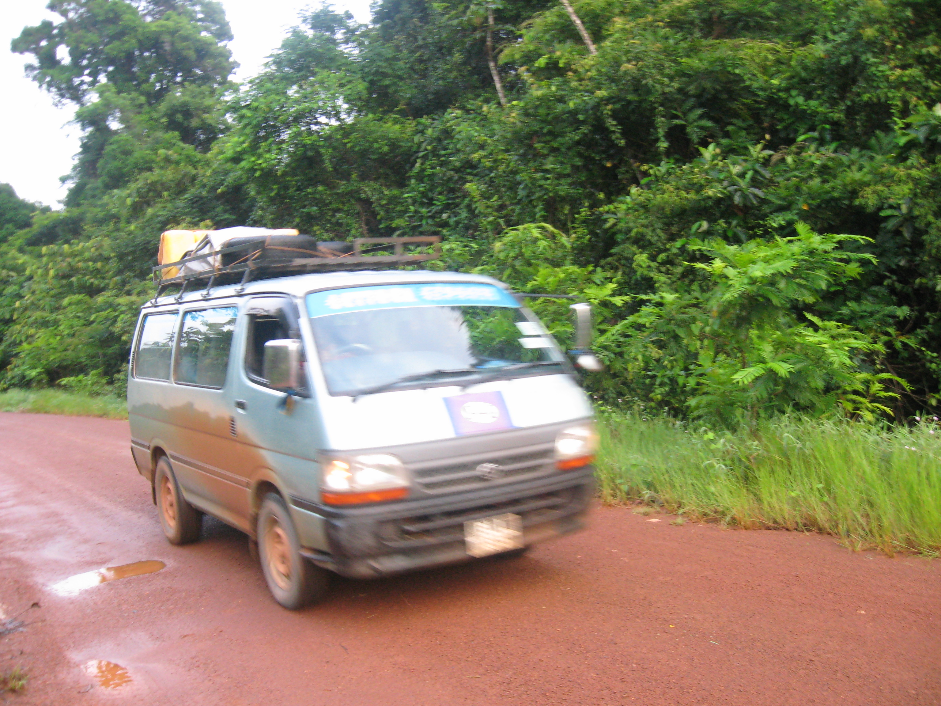 A van, usualy called "navete". That do the transportation of people and cargo from lethem to Georgetown